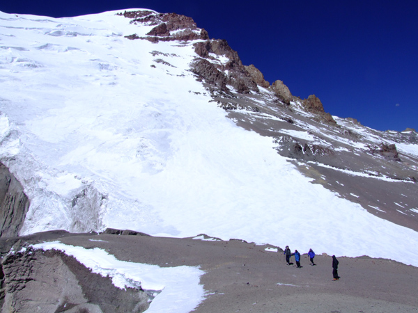 Polish Glacier on Aconcagua from 6000m.